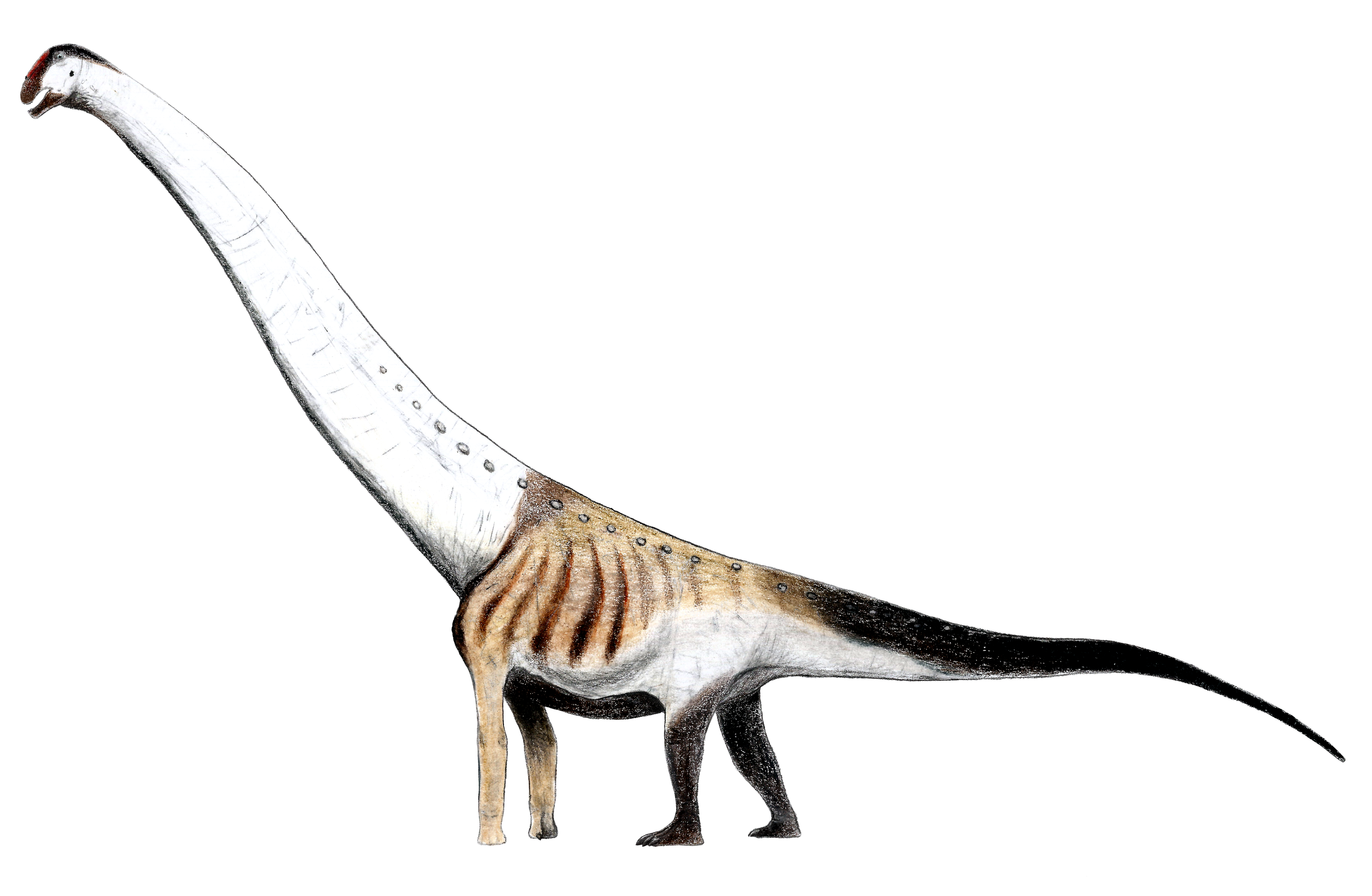 Life restoration of Aegyptosaurus